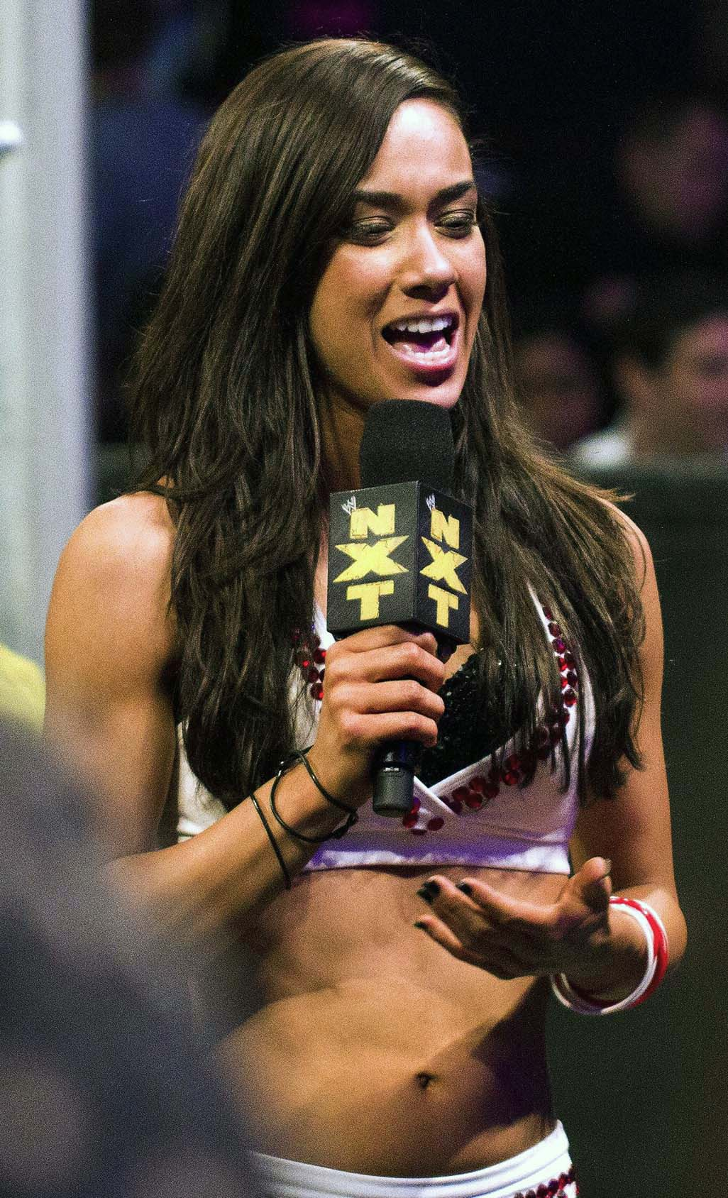 Divas: AJ during the November 23, 2010, episode of NXT. Cropped from original License on Flickr: CC-BY-SA-2.0 Flickr tags: wwe, wcw, ecw, 800th, Monday night raw, Friday night smackdown, raw, smackdown